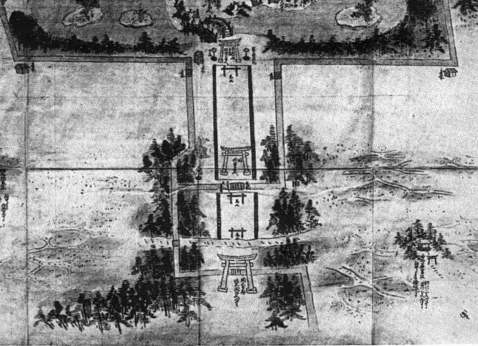 Kamakura's Wakamiya Ōji Avenue in an Edo period print. Image cropped from aa larger image Turu h kei.jpg